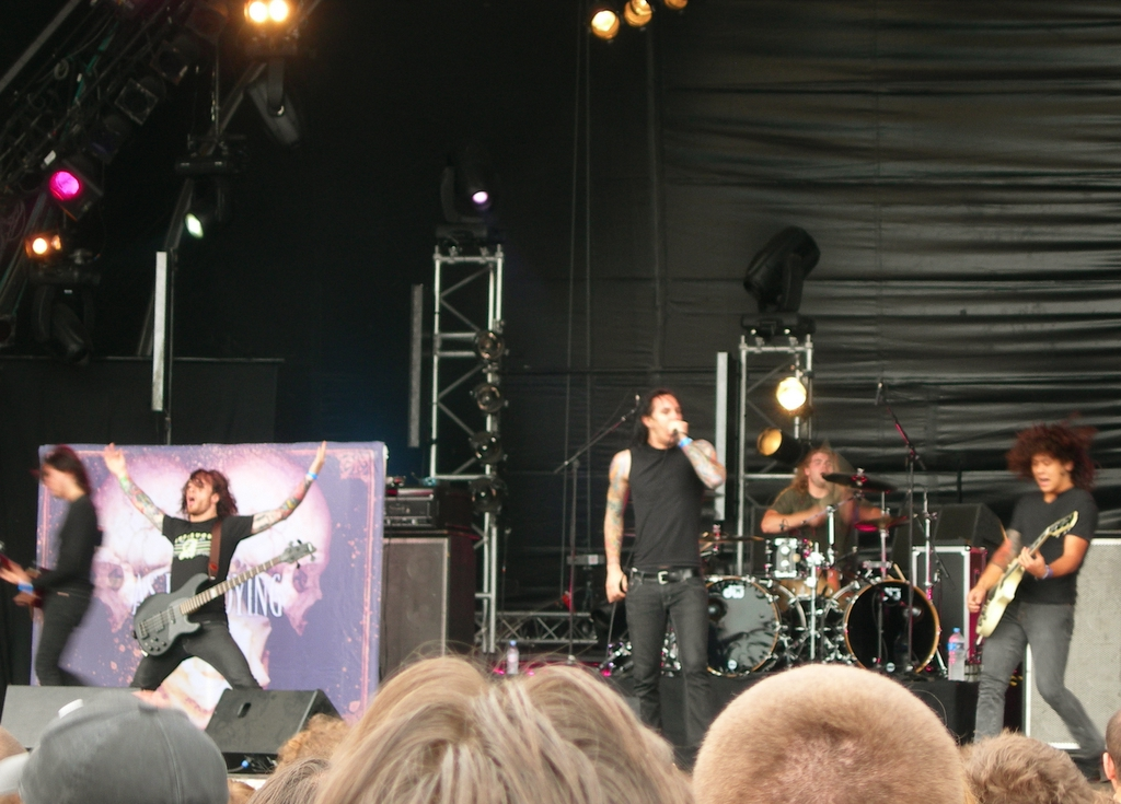 As I Lay Dying performing at the Hellfest Summer Open Air in 2006.